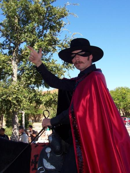 Photo Credit: O'Jay Barbee The Masked Rider (Kevin Burns, Clovis, New Mexico) of the Red Raiders at Texas Tech University in Lubbock, Texas, U.S.